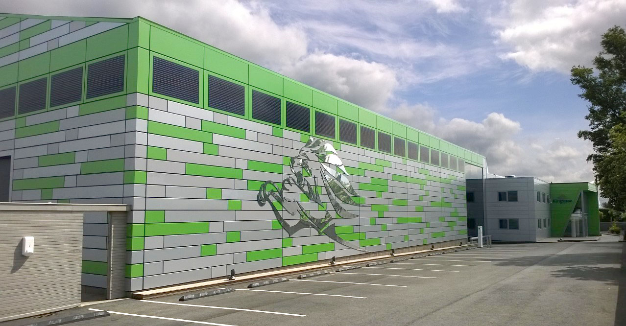 This image was taken outside the Kingspan Head Office in Kingscourt, County Cavan in the Republic of Ireland on the 15th May 2014.